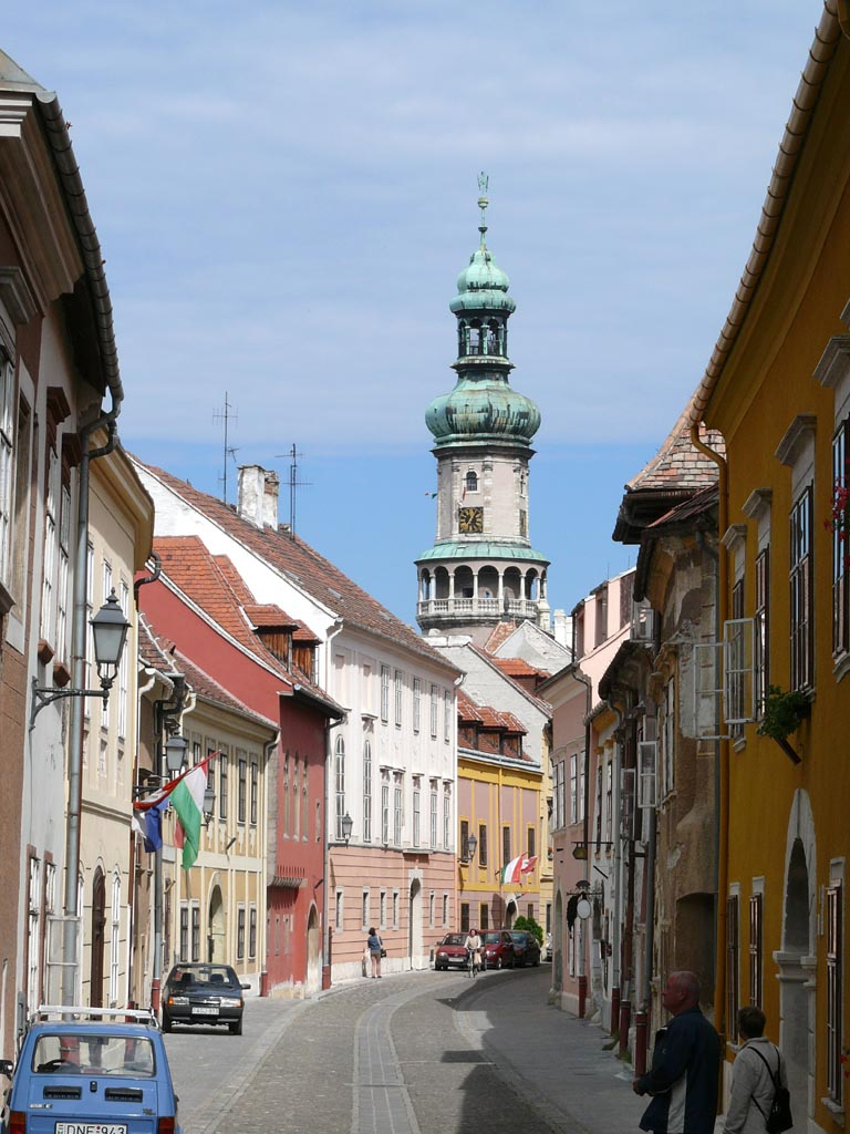 Sopron, Old town, Új (New) street